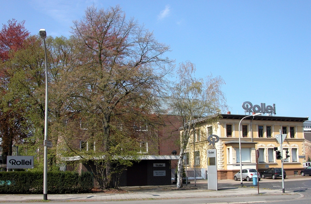 Brunswick, Germany: Rollei-factory.